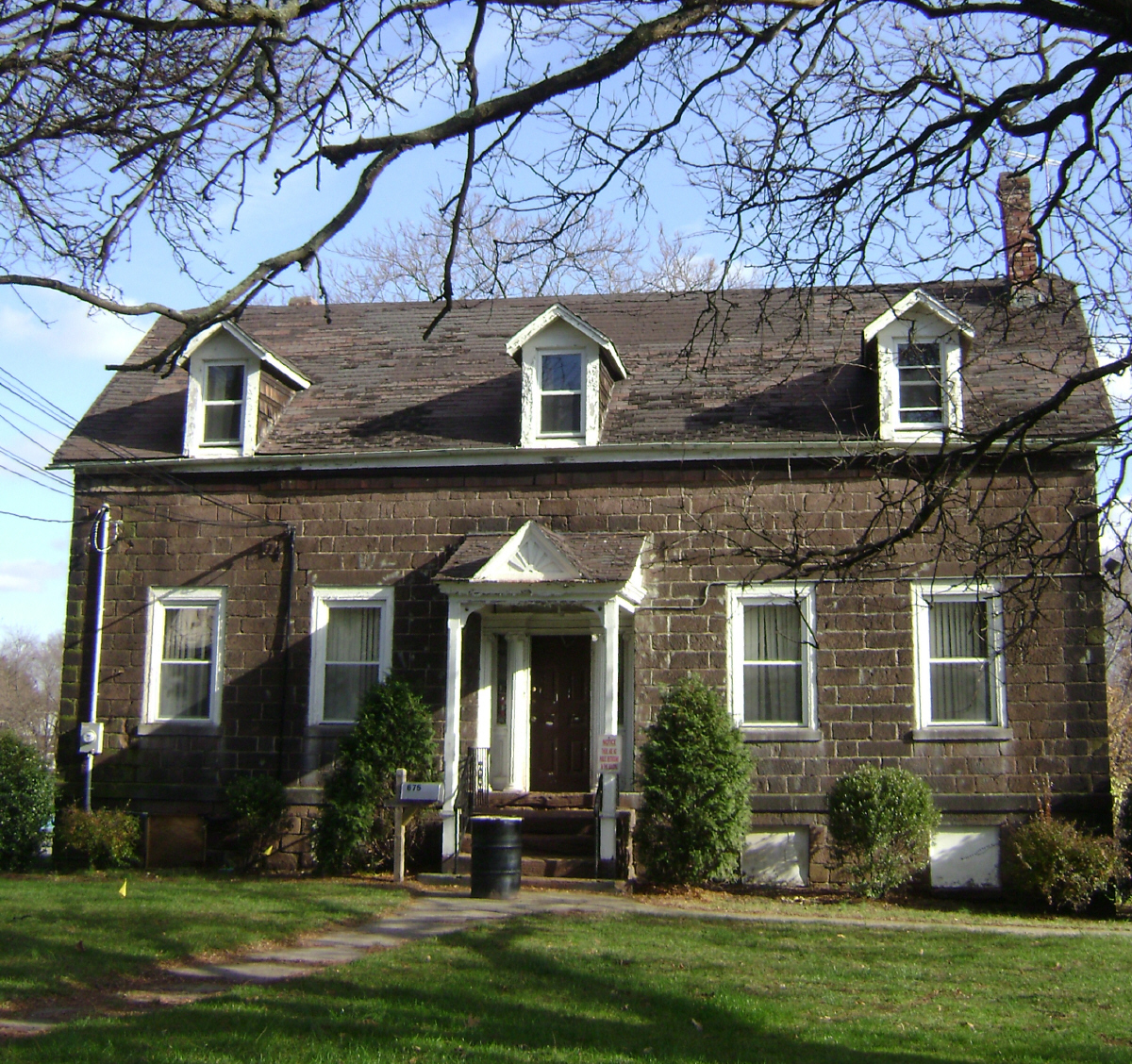 The John W. Rea House, which was constructed in 1810, is seen from the front in early December, 2011. The house, which is listed on both the National and New Jersey Register of Historic Places, is currently used as office space for Passaic County.